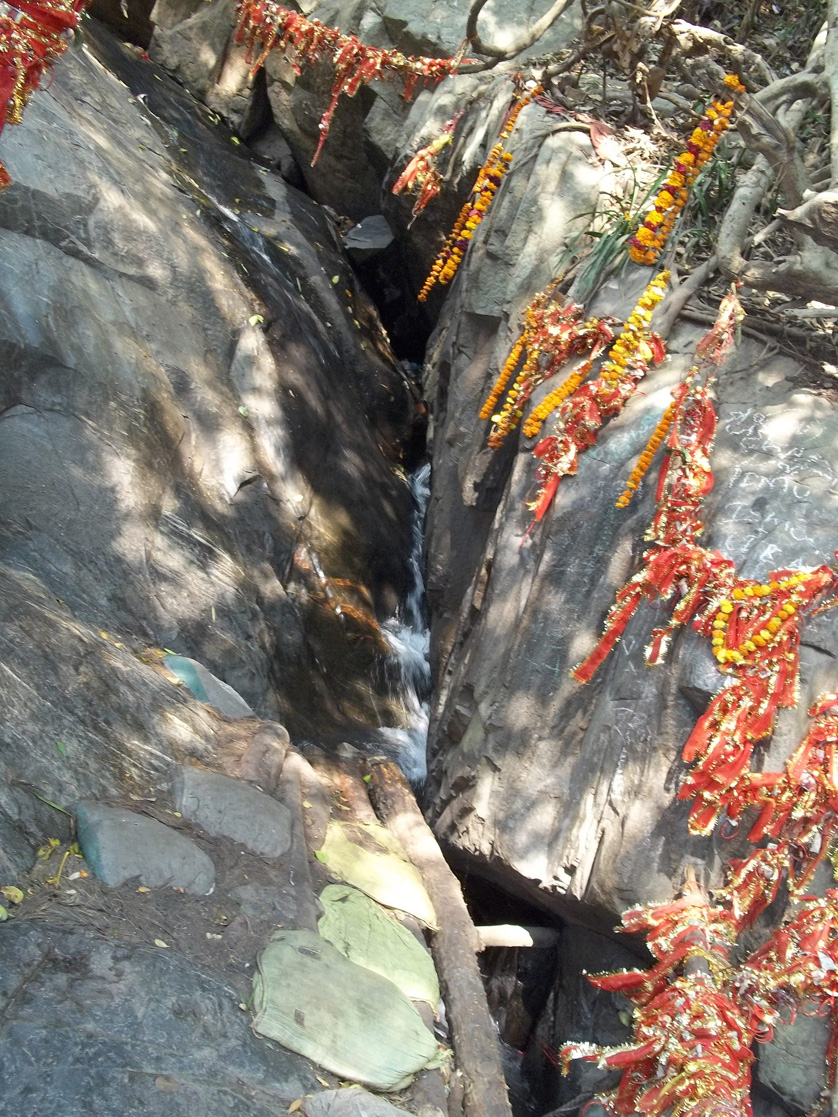 Panchalingeswar temple is one of the prominent Shiva temples of Odisha located in Panchalingeswar, Nilagiri, Baleswar. Pictured by ସୁଭ ପା/Subhashish Panigrahi This image was selected as Picture of the day on the Odia Wikipedia for 2011-08-03.